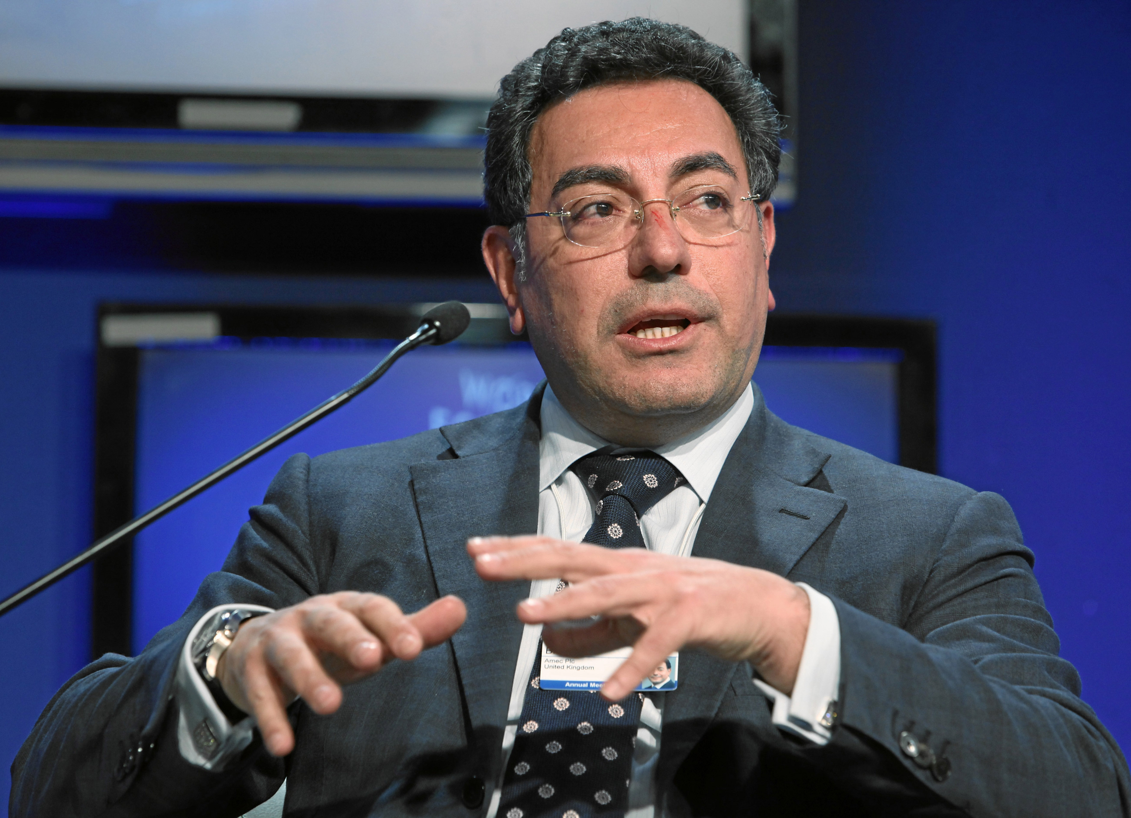 DAVOS/SWITZERLAND, 29JAN10 - Samir Brikho, Chief Executive Officer, Amec, United Kingdom; Chair of the Governors Meeting for Engineering & Construction 2010 is captured during the session 'Global Industry Outlook: Heavy Industries' at the Annual Meeting 2010 of the World Economic Forum in Davos, Switzerland, January 29, 2010.. . . Copyright by World Economic Forum. by Monika Flueckiger. . . .